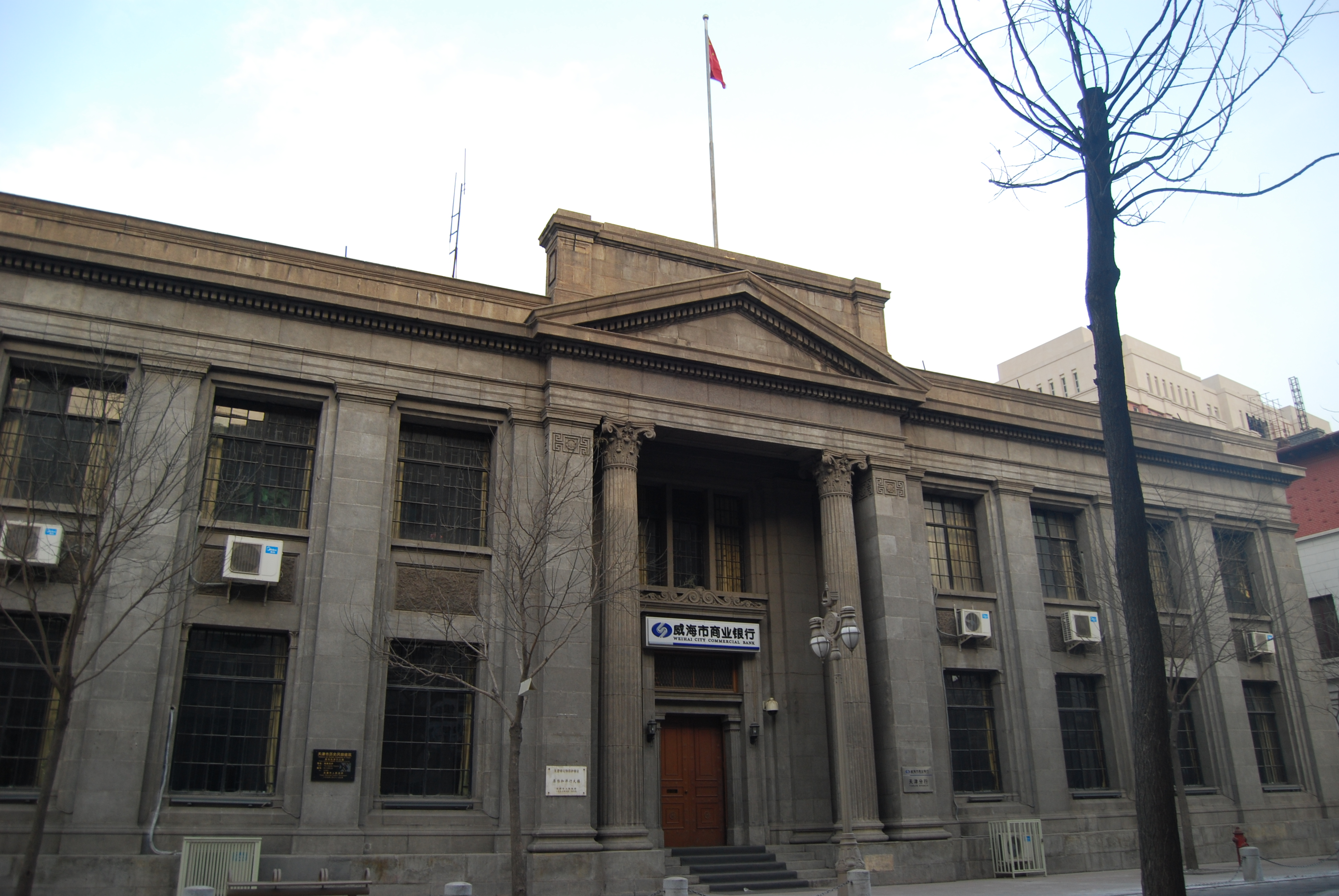 Former Location of Jardine, Matheson & Co., Ltd in Jiefangbei Lu No. 157, Heping District, Tianjin